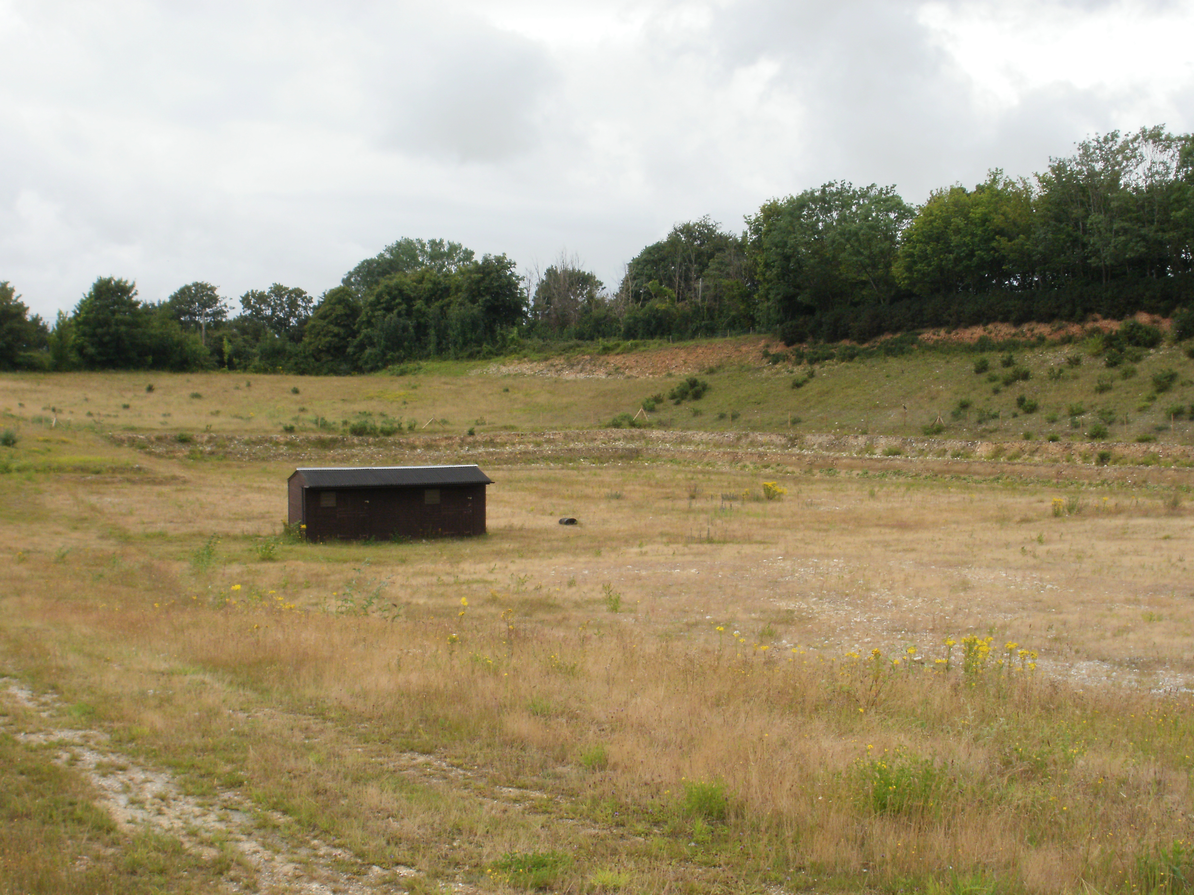 One of the quarries at Eartham Pit, Boxgrove, a site famous for Palaeolithic archaeology.